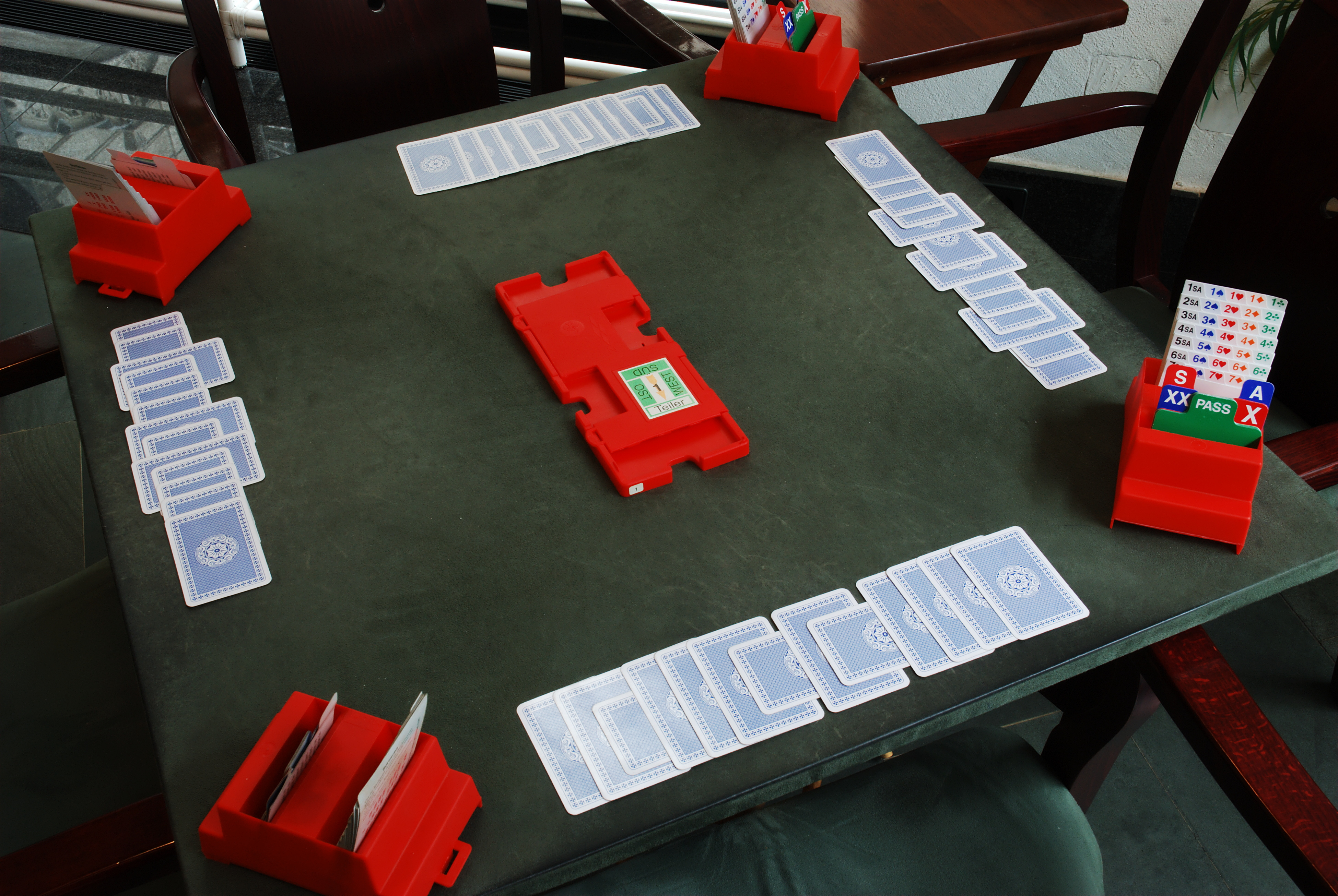 This pictures shows the cards turned down after a bridge game. A card of a trick won by the own side is pointed lengthwise toward the partner, a card of a trick won by the opponents is pointed lengthwise toward the opponents. The cards are arranged from left to right. In this example, North-South (the players at the top and the bottom) won the tricks 1, 2, 4, 5, 6, 8, 10, 11, 12 and 13. East-West (the players left and right) accordingly won the tricks 3, 7 and 9.